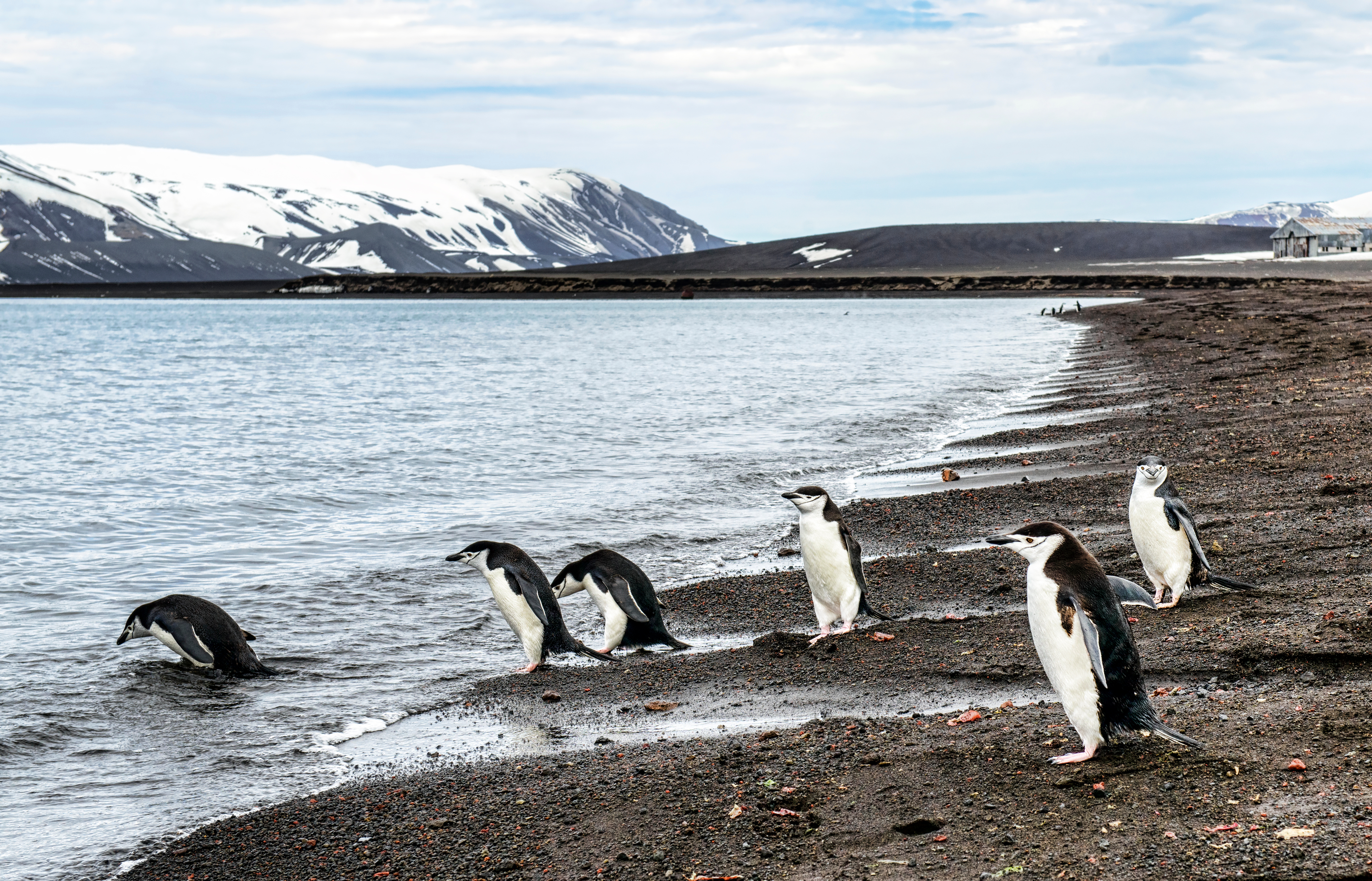 Antarctica 2013: Journey to the Crystal Desert